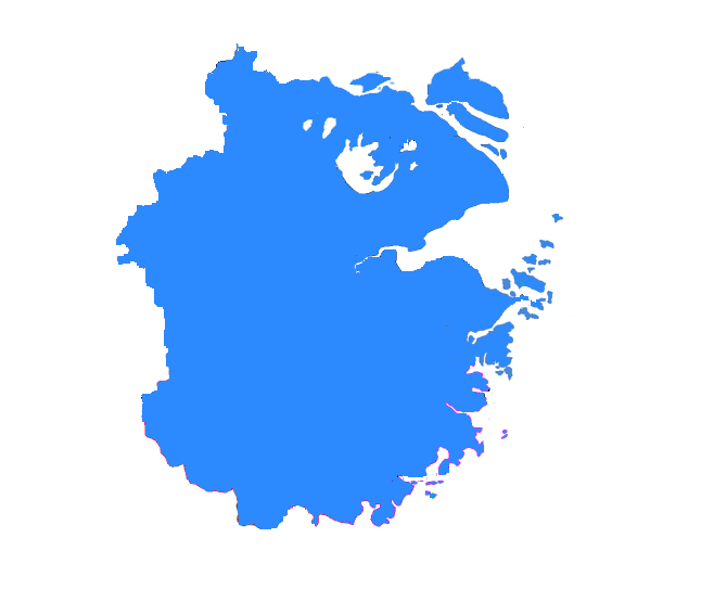 map of wuyueh region